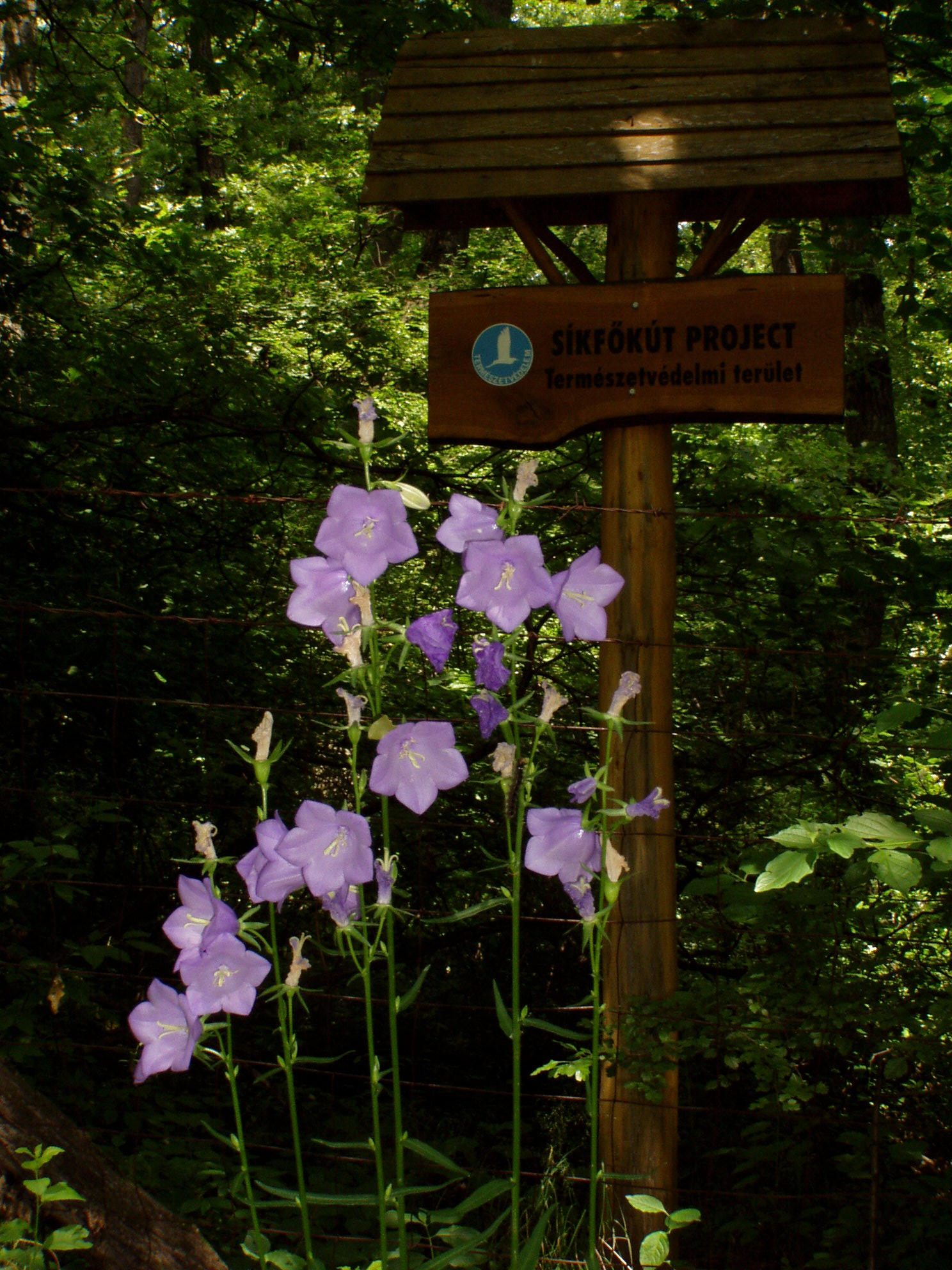 The photo was taken from the meteorological tower at the Sikfokut Project protected area.